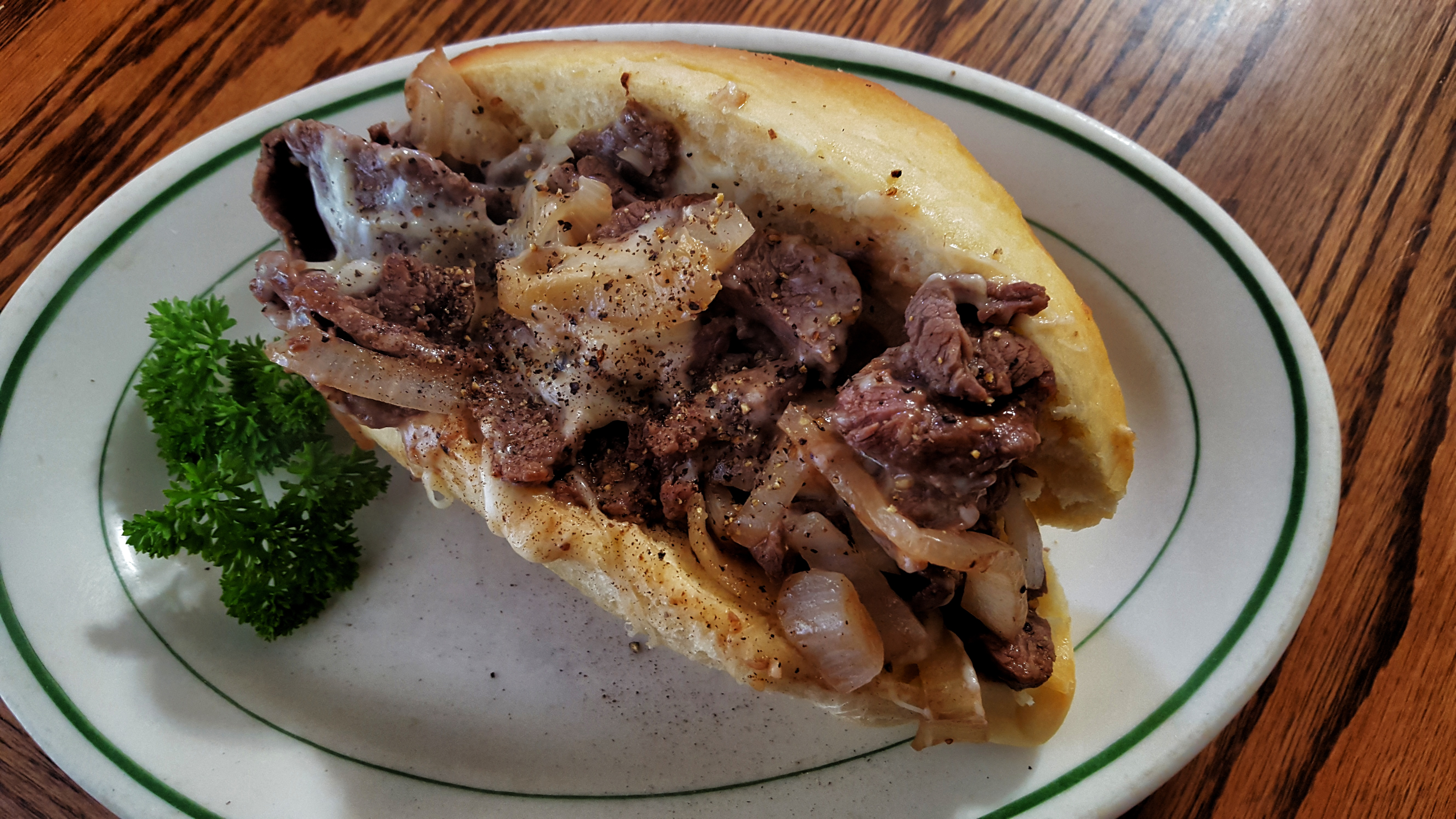 Philly Cheesesteak